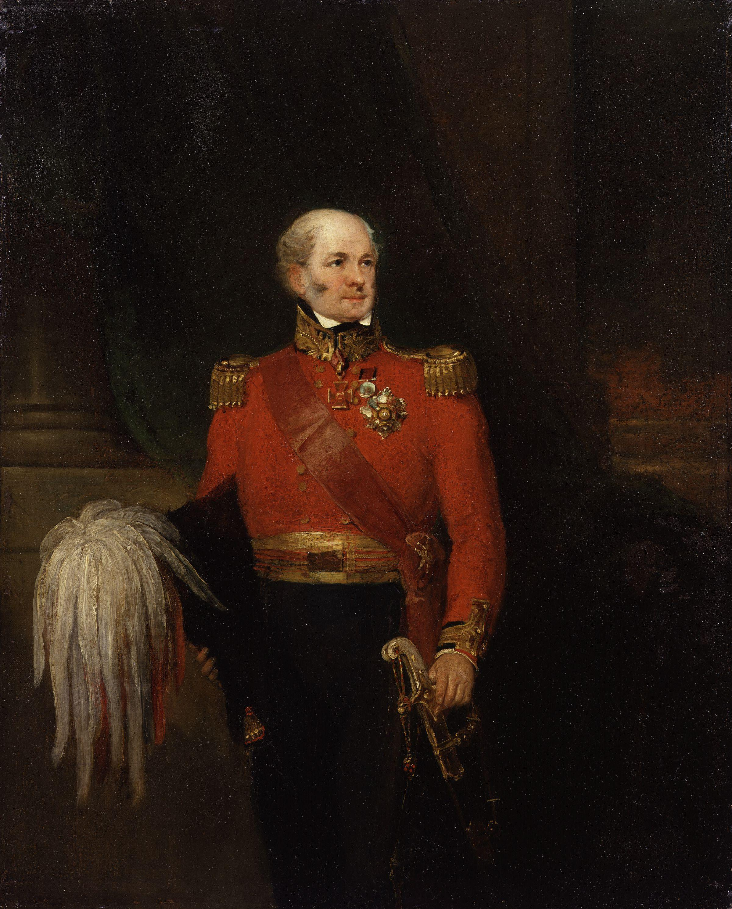 Sir John Lambert, by William Salter (died 1875). All images in this batch have been confirmed as author died before 1939 according to the official death date listed by the NPG.